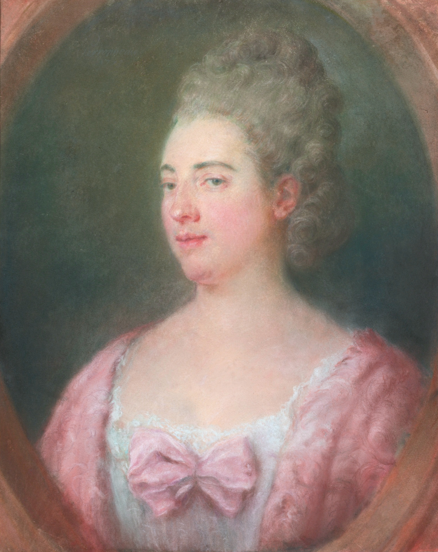 Isabelle-Agneta-Élisabeth de Charrière de Penthaz, née Isabelle Agneta Elisabeth van Tuyll van Serooskerken, called Belle de Zuylen (1740-1805) pastel on paper mounted on canvas 60.3 x 49 cm signed t.l.: Perronneau/1773